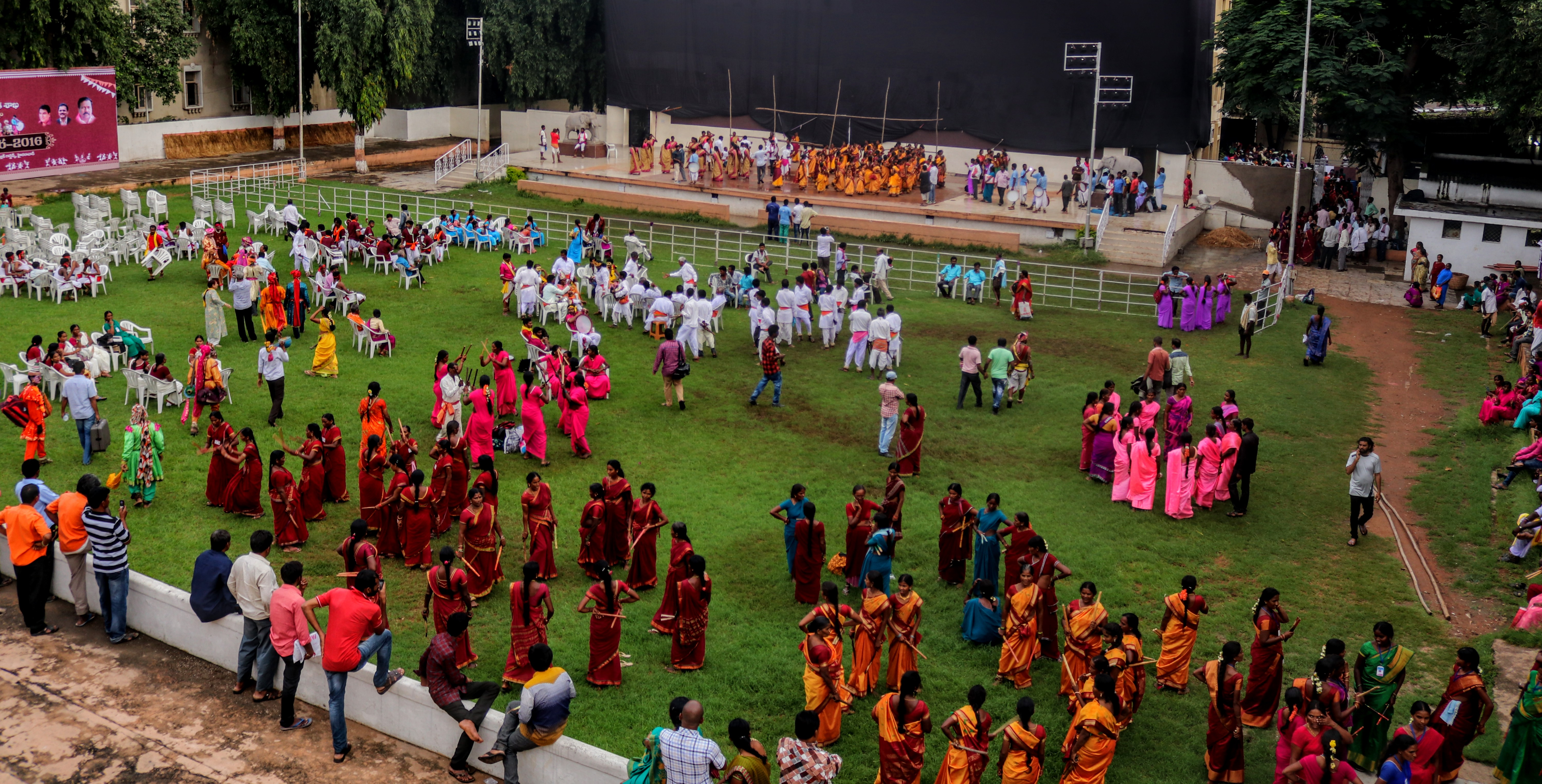 This photo has been taken in the country: India